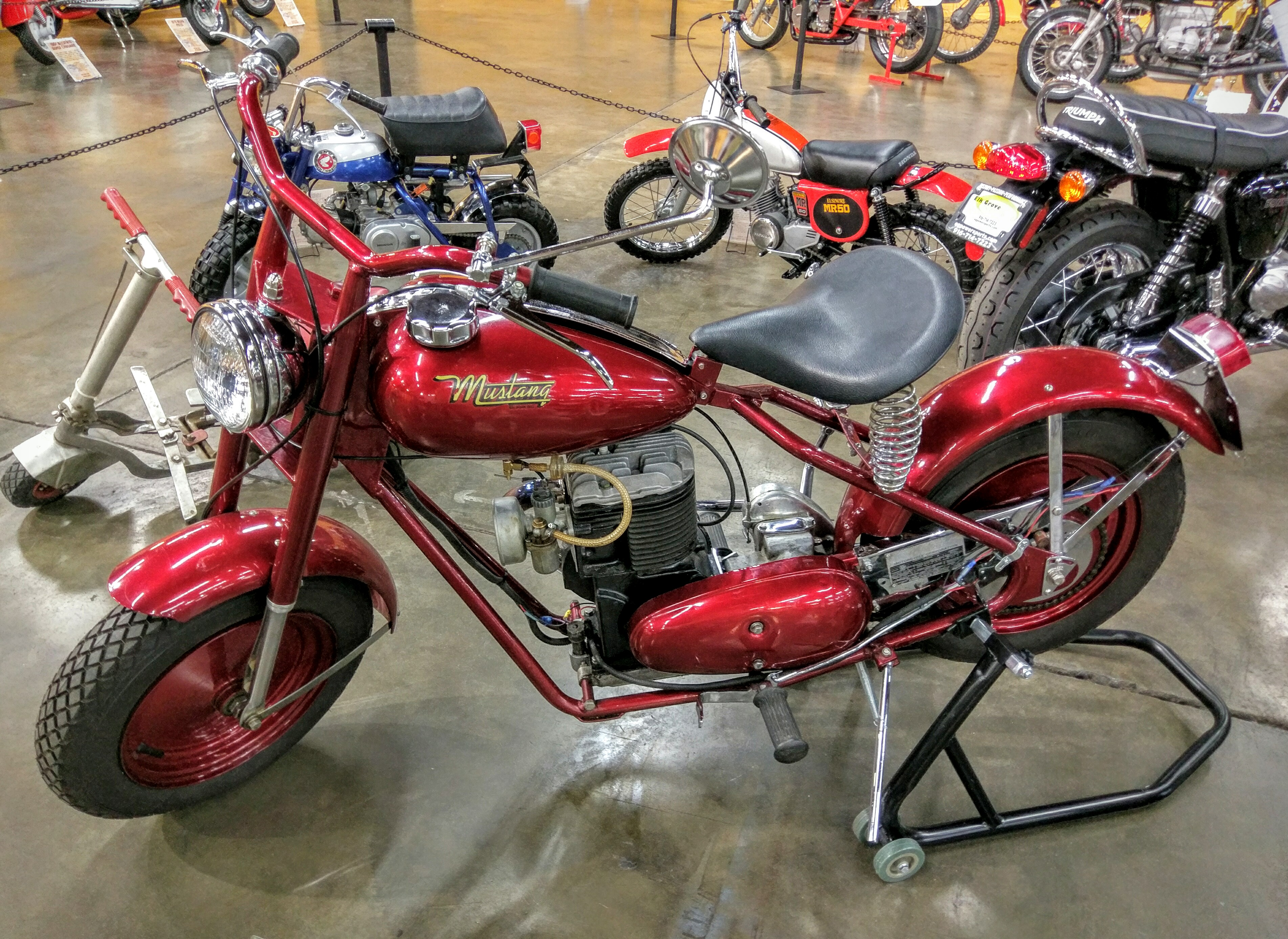 On display at the California Automobile Museum. Photo by Jim Heaphy.